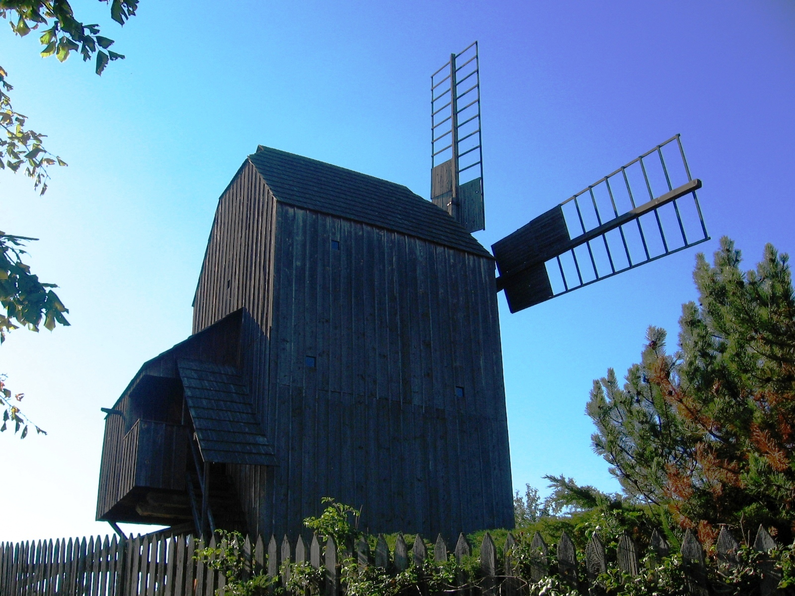 Windmill in Klobouky u Brna from rear